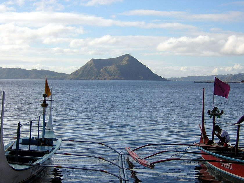 Picture taken by Jhun Taboga